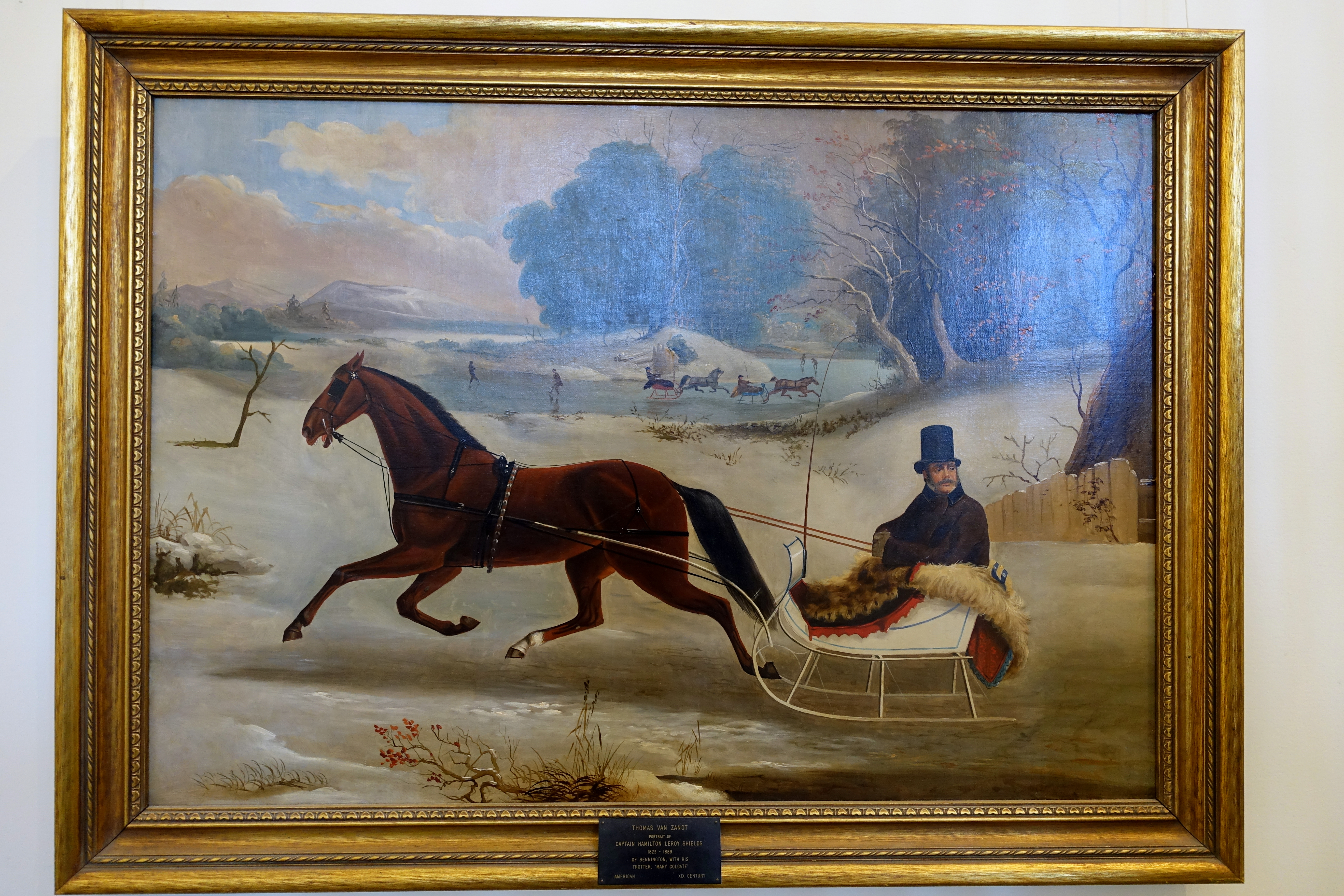 Painting in the Bennington Museum - Bennington, Vermont, USA. This work is in the public domain because the artist died more than 70 years ago.